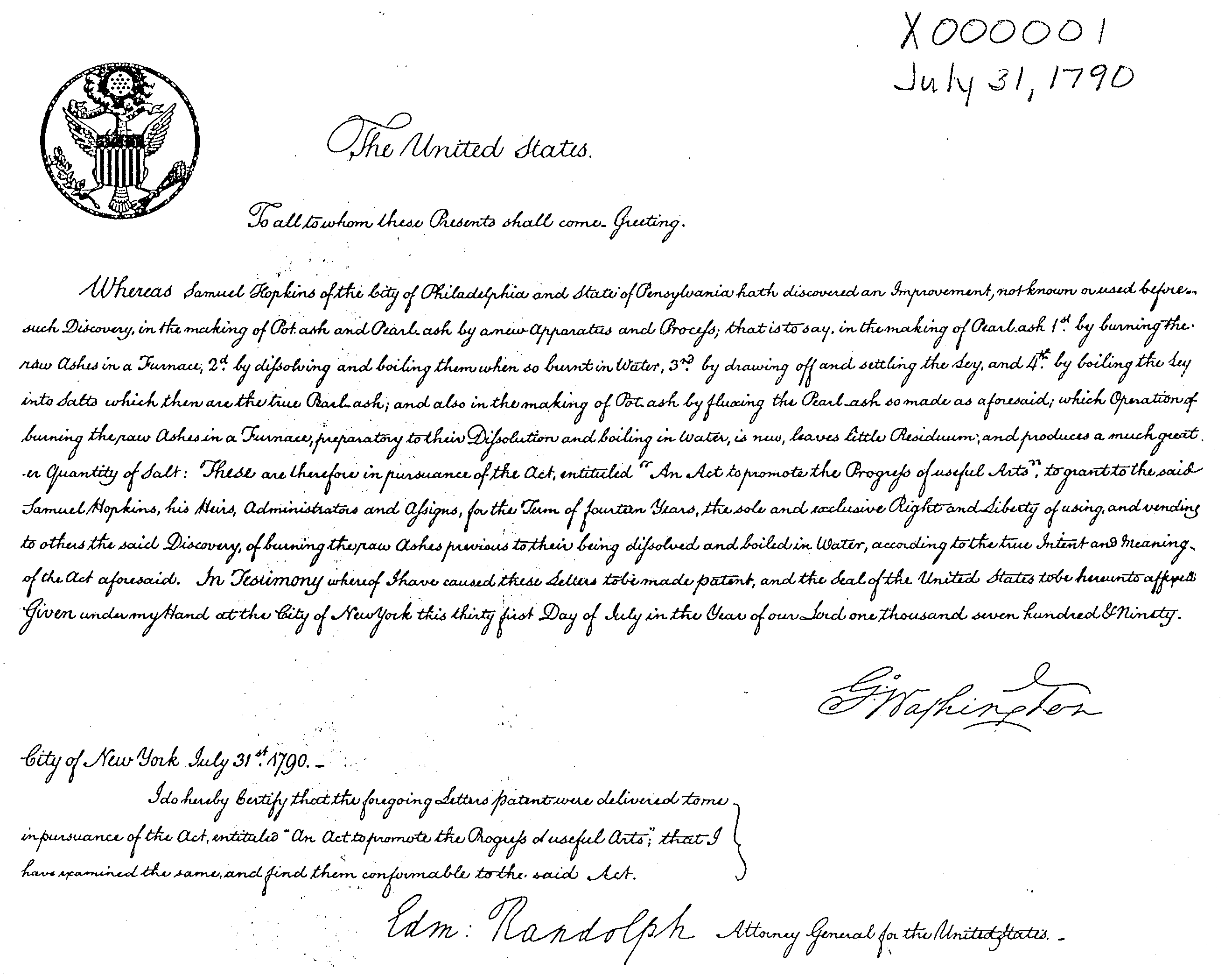 US patent X1 awarded to Samuel Hopkins.